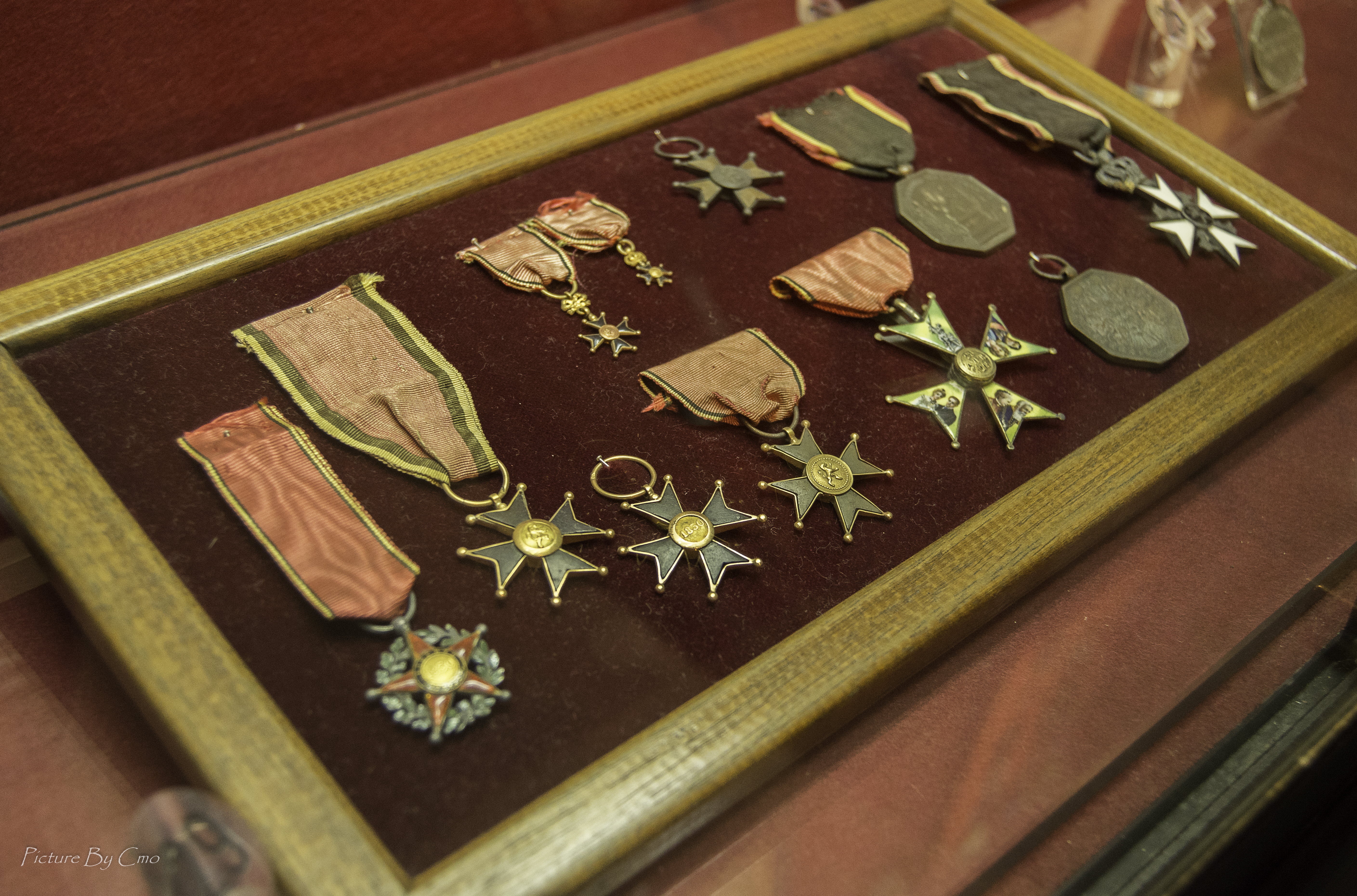 This is a file created at the museum: Royal Museum of the Armed Forces and of Military History in Brussels